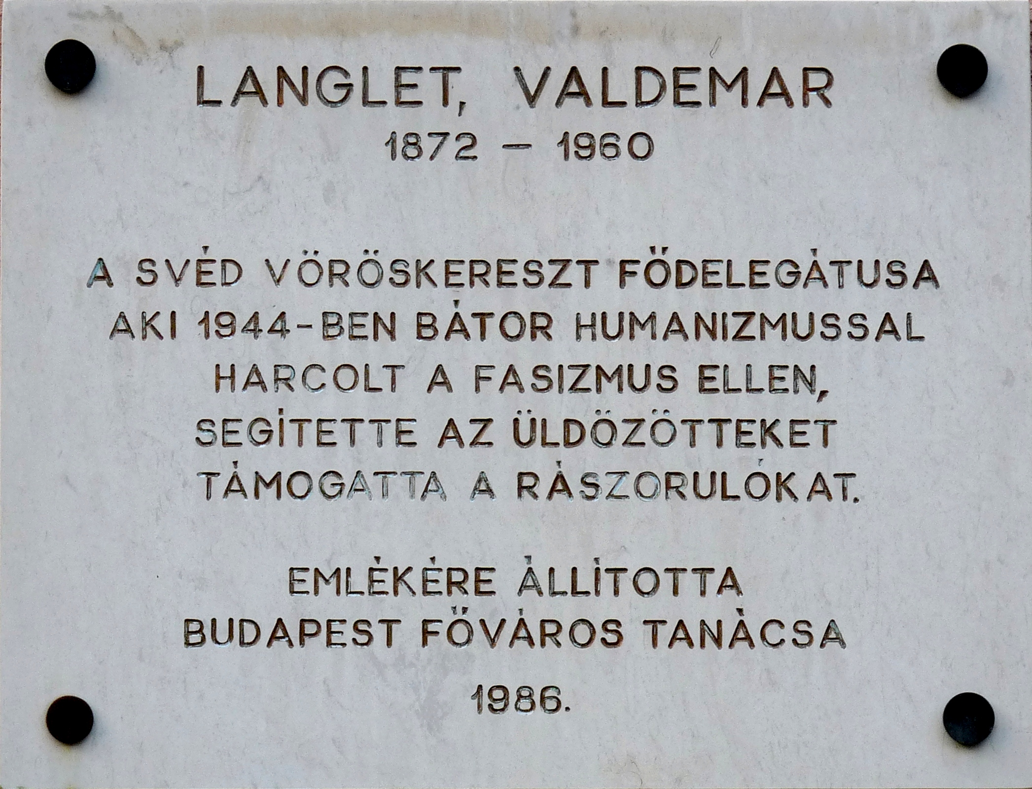 Commemorative plaque to Mr. Valdemar Langlet (1872-1960) Swedish journalist, famous esperantist who worked in Budapest in 1944 to rescue Jews from the Holocaust under cover of the Swedish Red Cross. The plaque is placed on the front of the scool bearing his name. (Budapest, District IV, Langlet Valdemar Street Nr 3).